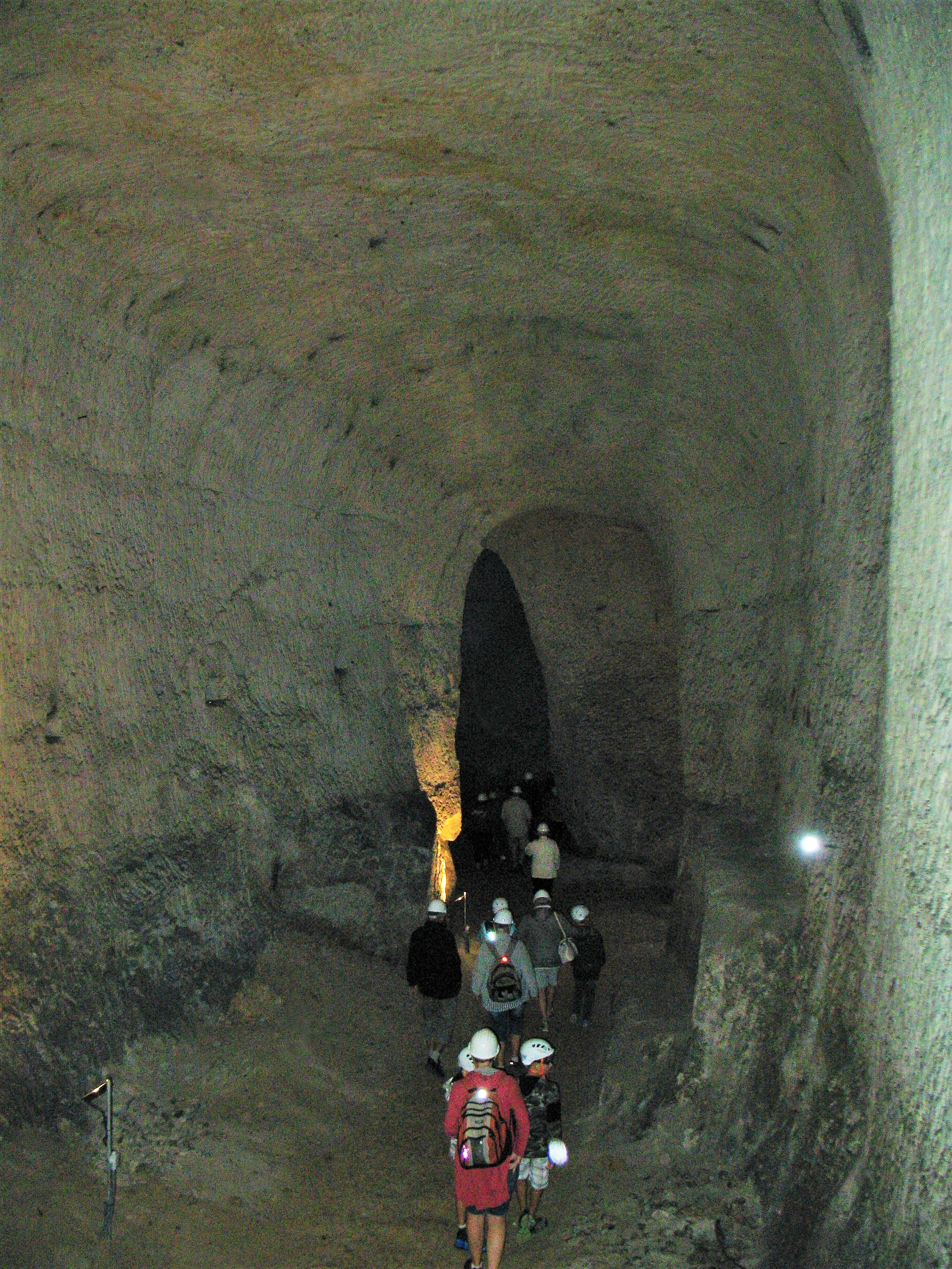 China-clay mine in Nevřeň, Plzeň-North District, Czech Republic